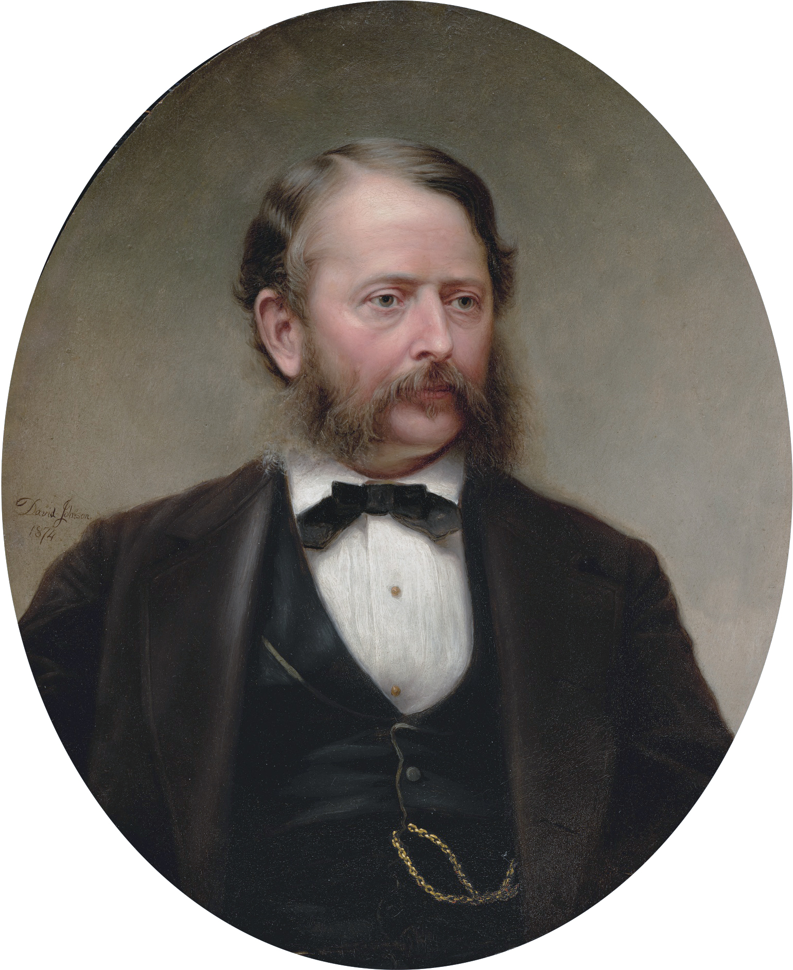 John Frederick Kensett oil on board 68.6 x 55.9 cm signed c.l.: David Johnson / 1874